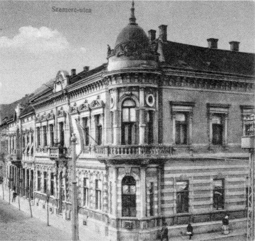 Bar Association Headquarters, 2 Szemere street, Miskolc, Hungary, 1916